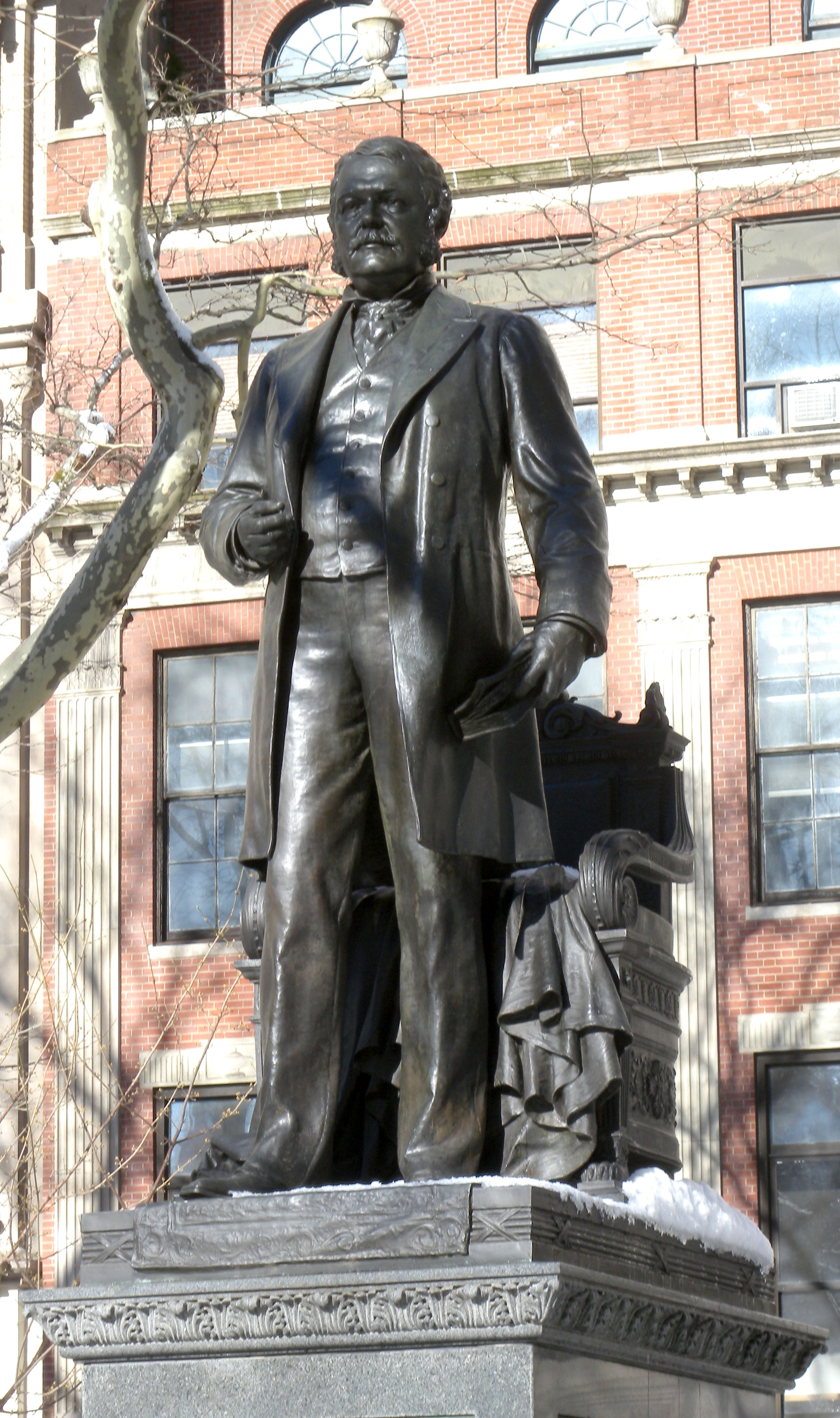 Looking northwest at Arthur statue on a sunny afternoon with snow on the ground.